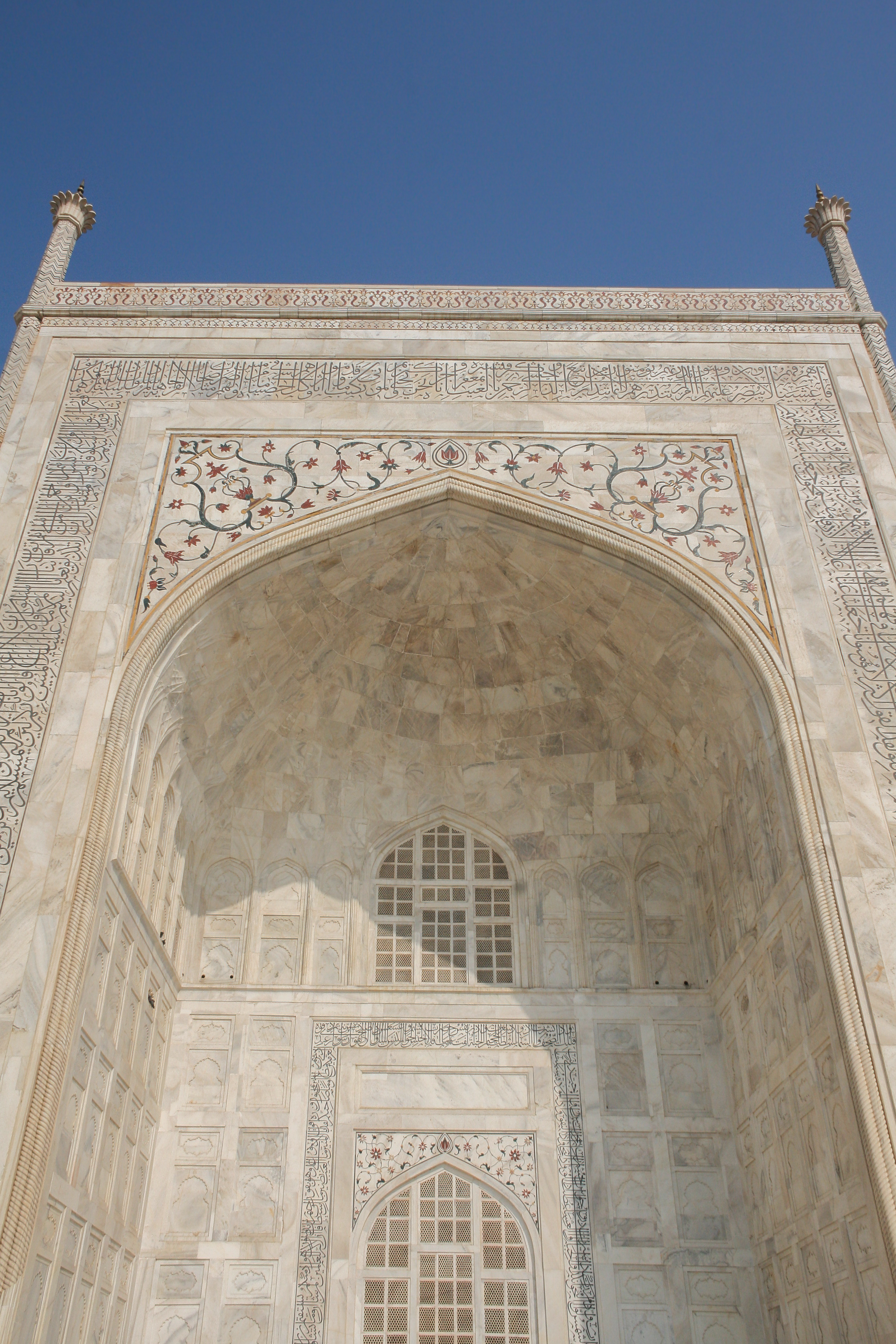 Taj Mahal, Agra, India